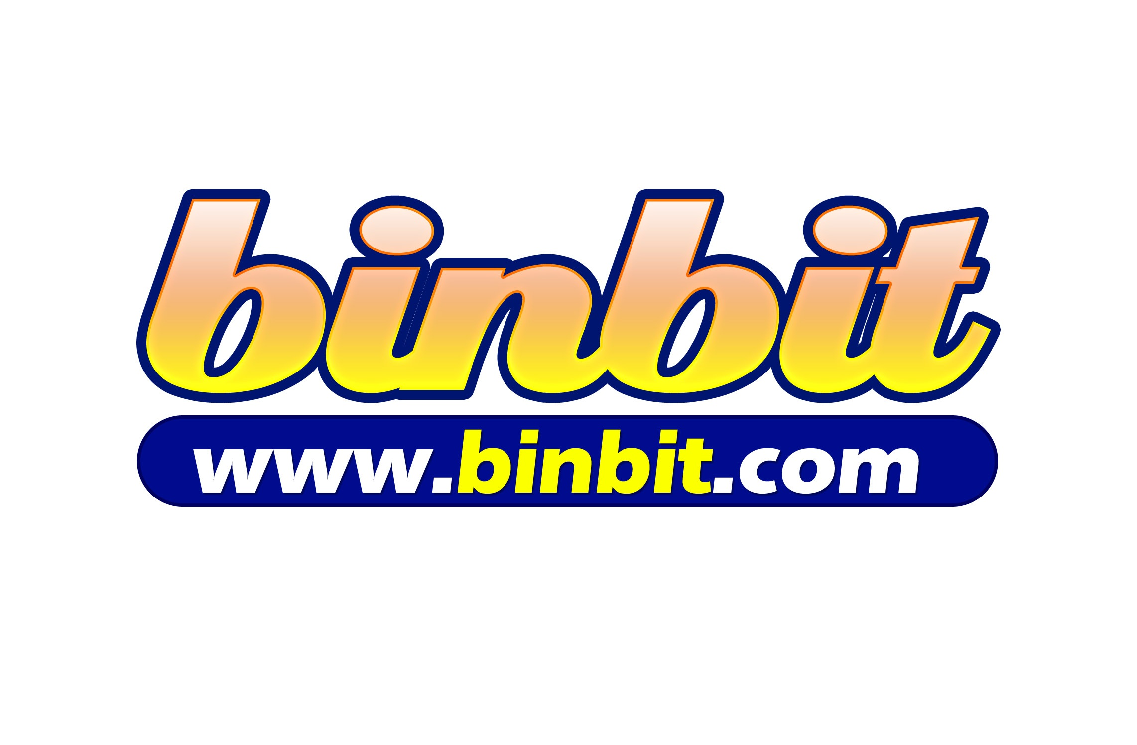 Binbit is a global company specialized in delivering mobile entertainment services to mobile operators, media groups and end users